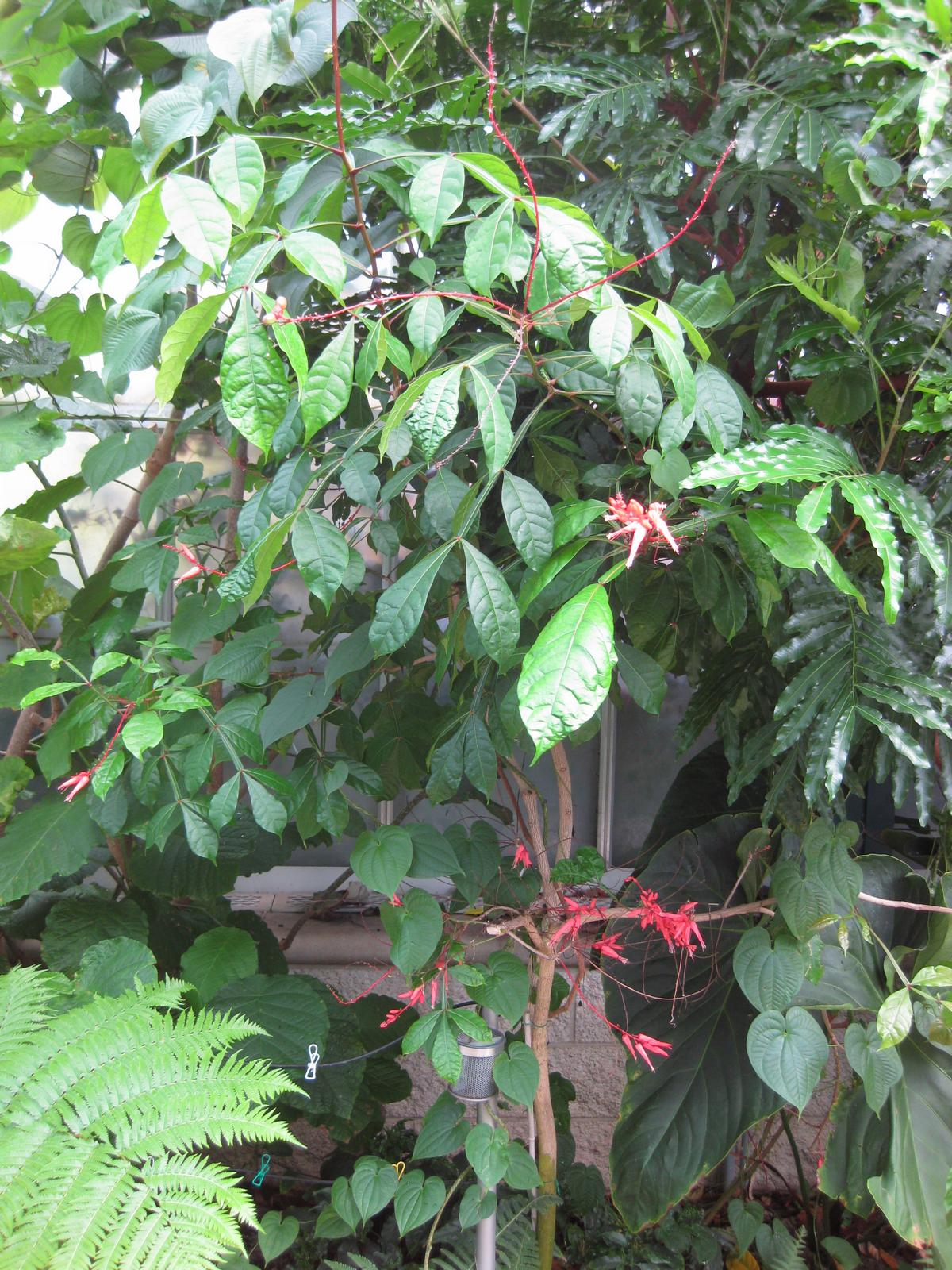 Photographed at Huntington Gardens (Los Angeles, California) in August